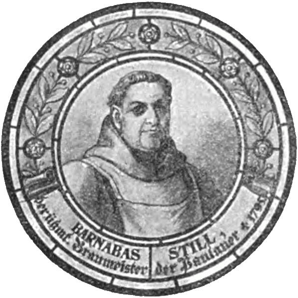 Valentin Stephan Still (monk Barnabas; 1750-1795), German monk and brewer